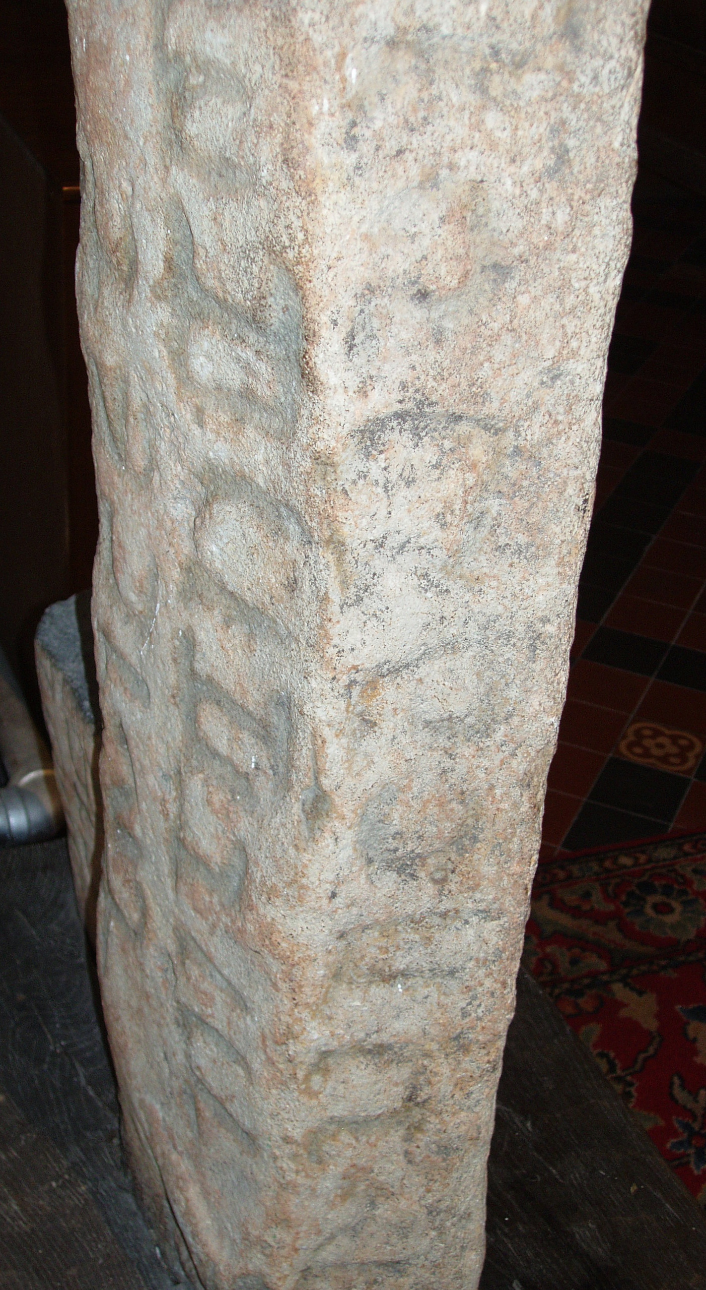 Gravestone thought to carry the earliest surviving Welsh inscription, which has been dated to the early 8th century. It is kept inside St Cadfan's Church, Towyn, Gwynedd.